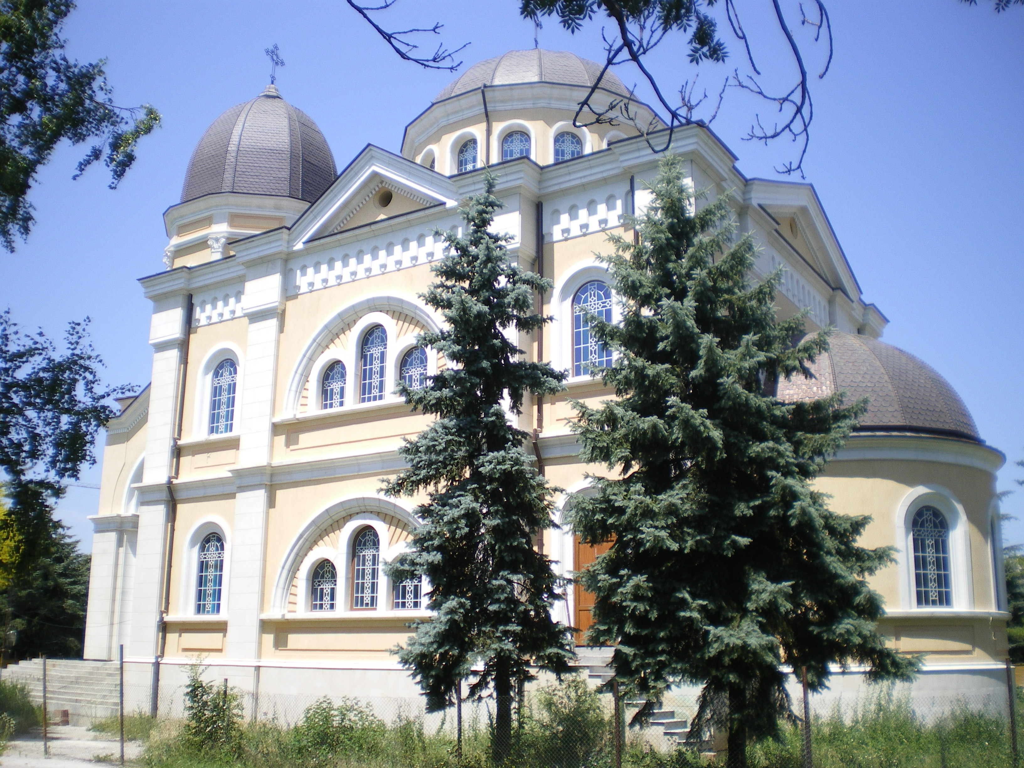 The new church 'Vseh Svjatih', (All Saints), 2012.